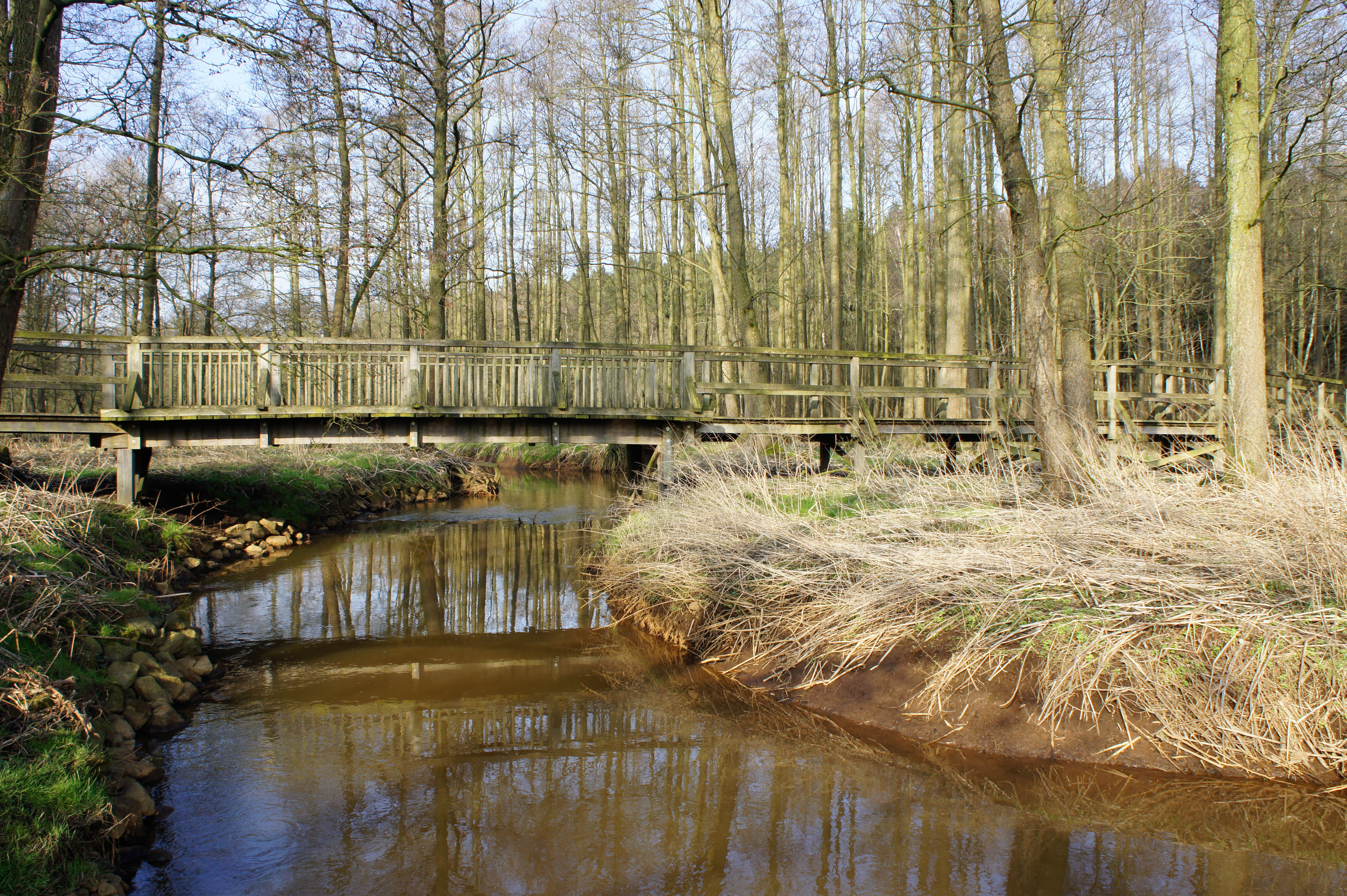 The Delme near the Oceanbridge